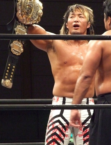 Professional wrestler Hiroshi Tanahashi holding the IWGP Heavyweight Championship belt.